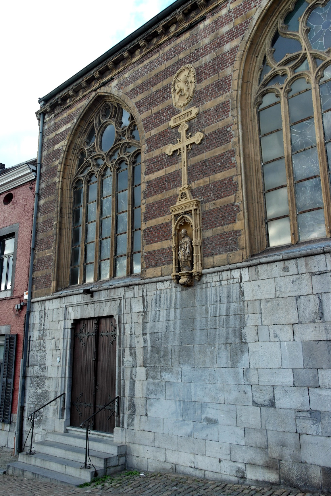 Liège, Belgium. View of the south side of Saint Servatius Church.